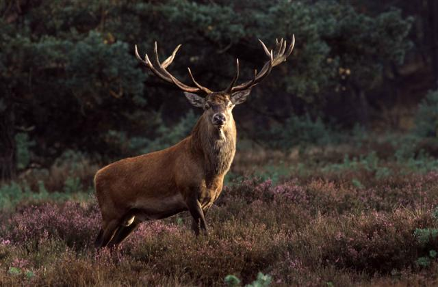 nature animal